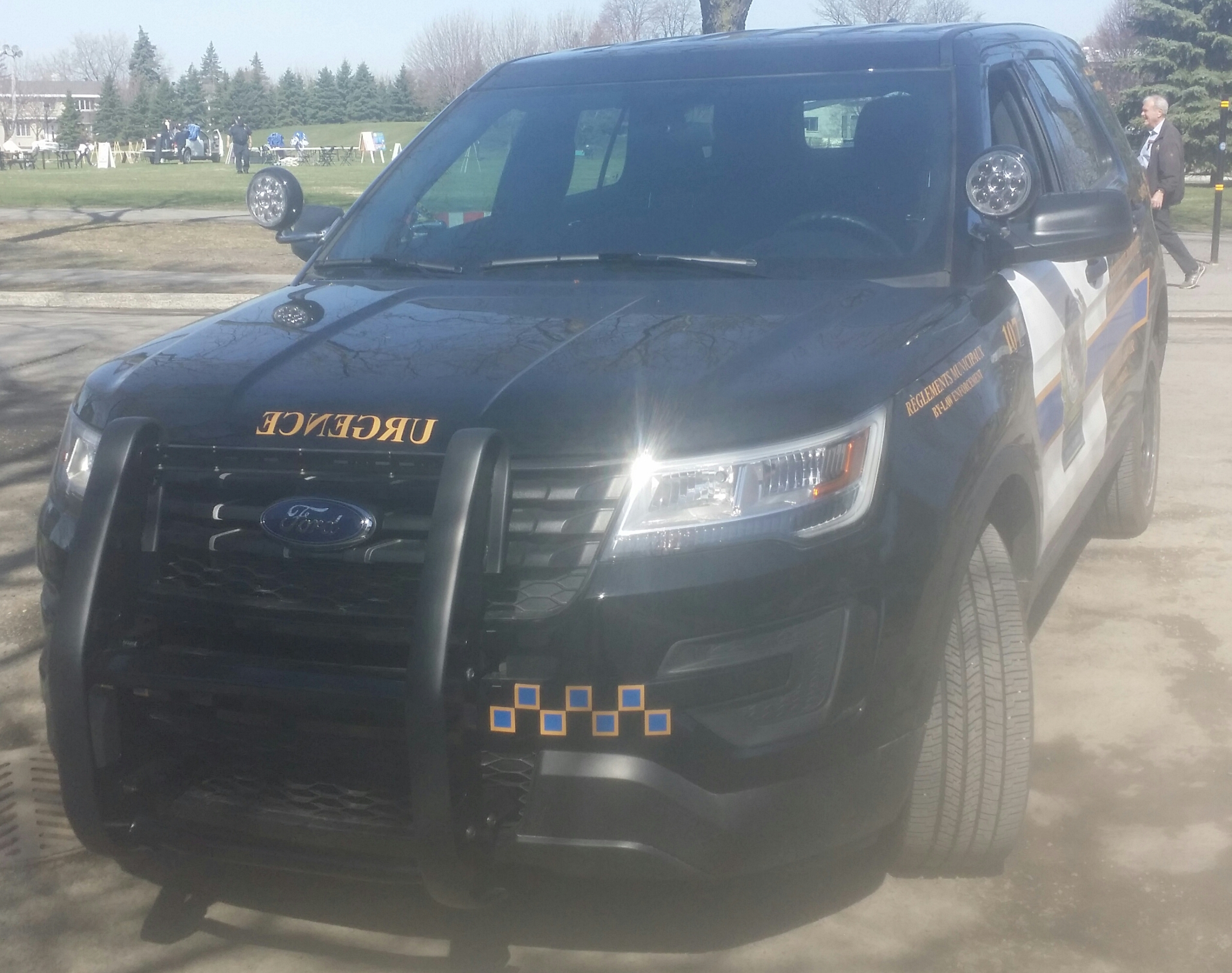 2016-2017 Ford Explorer photographed in Hampstead (city's police vehicle) , Québec, Canada at the VAQ Hampstead Car Show.